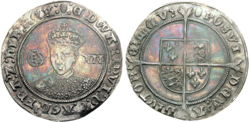 Tudor. Edward VI of England. 1547-1553. AR Shilling (6.15 g, 1h). Third period; fine silver issue. Tower mint; im: tun. Struck 1551-1553. ЄDWΛRD’. VI: D’. G’. ΛGL’. FRΛ’. Z: hIB’. RЄX:, crowned bust facing three-quarters left; rose to left, XII to right *POSVI DЄV’. ΛDIVTORЄ’. mЄV’., royal arms over long cross fourchée. North 1937; SCBC 2482.